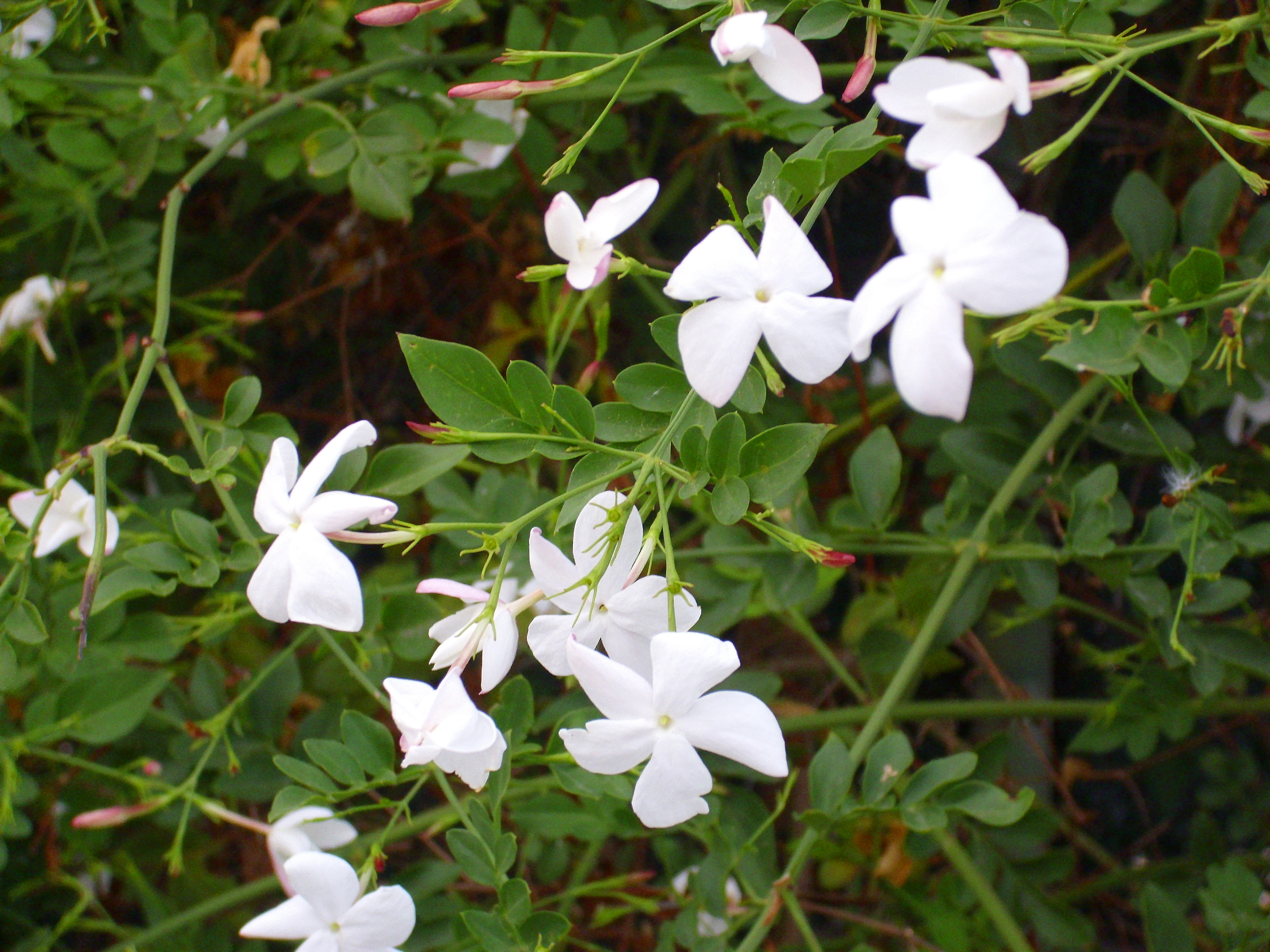 Jasminum officinale close up, Torrelamata, Torrevieja, Alicante, Spain